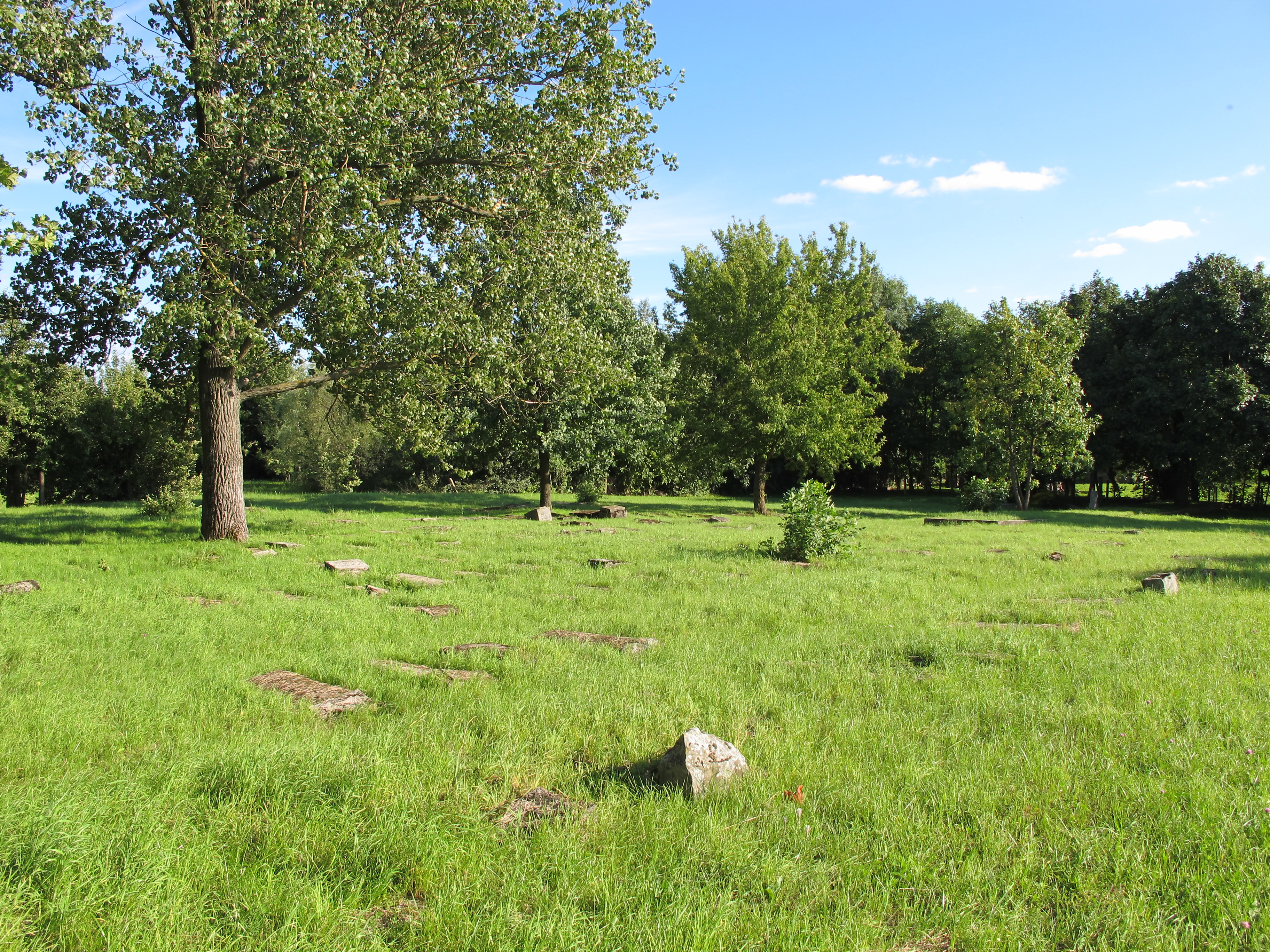 Jewish cemetery by Brańska street (NR 66) in Bielsk Podlaski